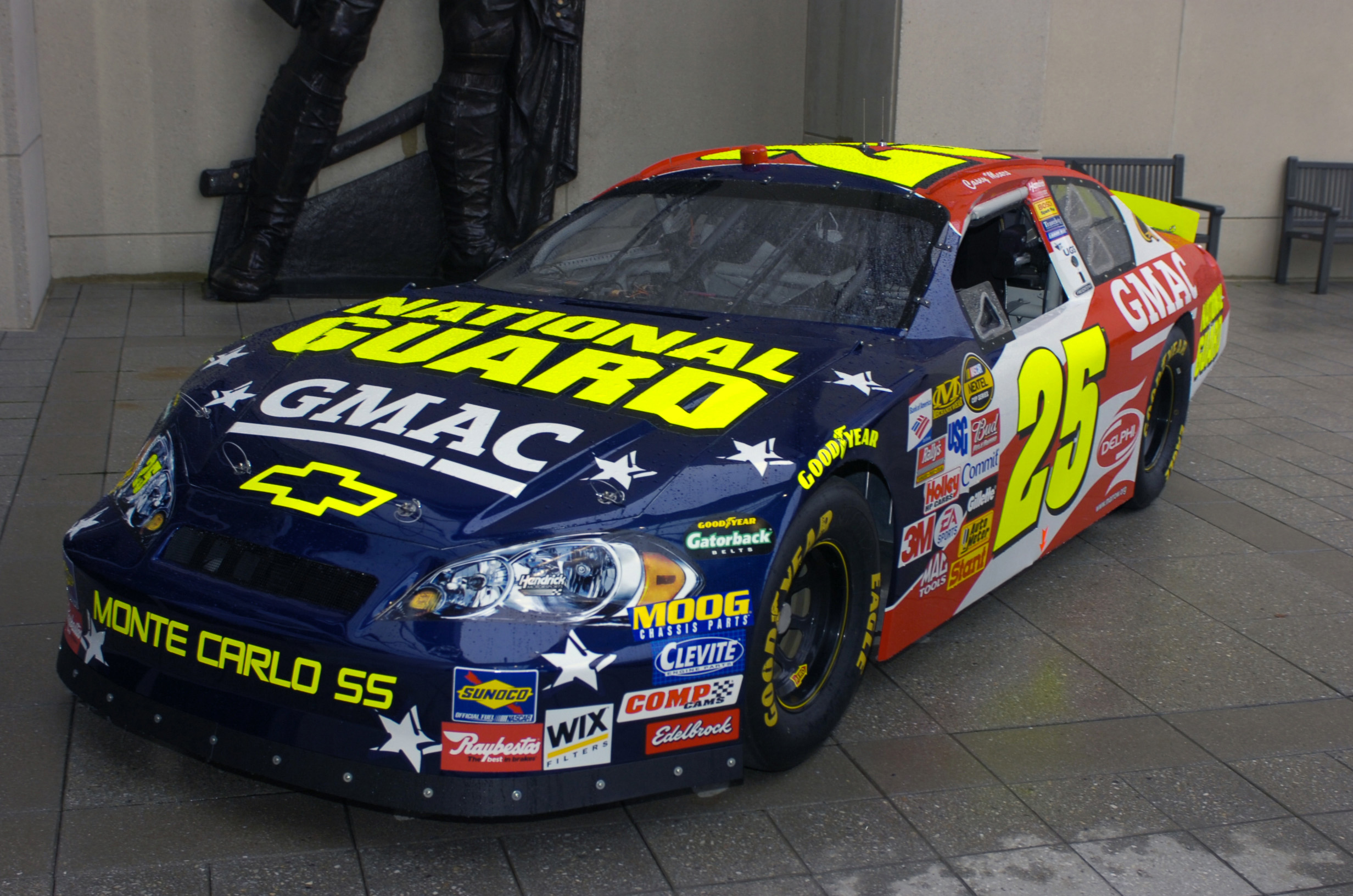 The number 25 National Guard GMAC Chevy Monte Carlo SS NASCAR car is unveiled at the Army National Guard Readiness Center in Arlington, Va., Jan. 12, 2007. (U.S. Army photo by Sgt. Jim Greenhill) (Released)